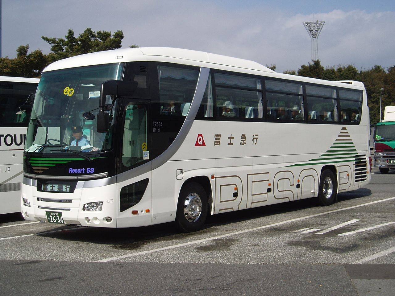 Hino S'Elega ADG-RU1ESAA for Fuji Express T2634 at Ashigara Service Area